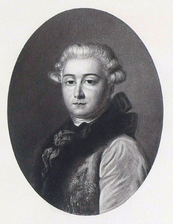 Ivan_Sergeevich Baryatinsky (1740-1811)